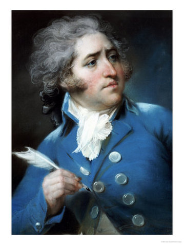 Edward Topham portrait